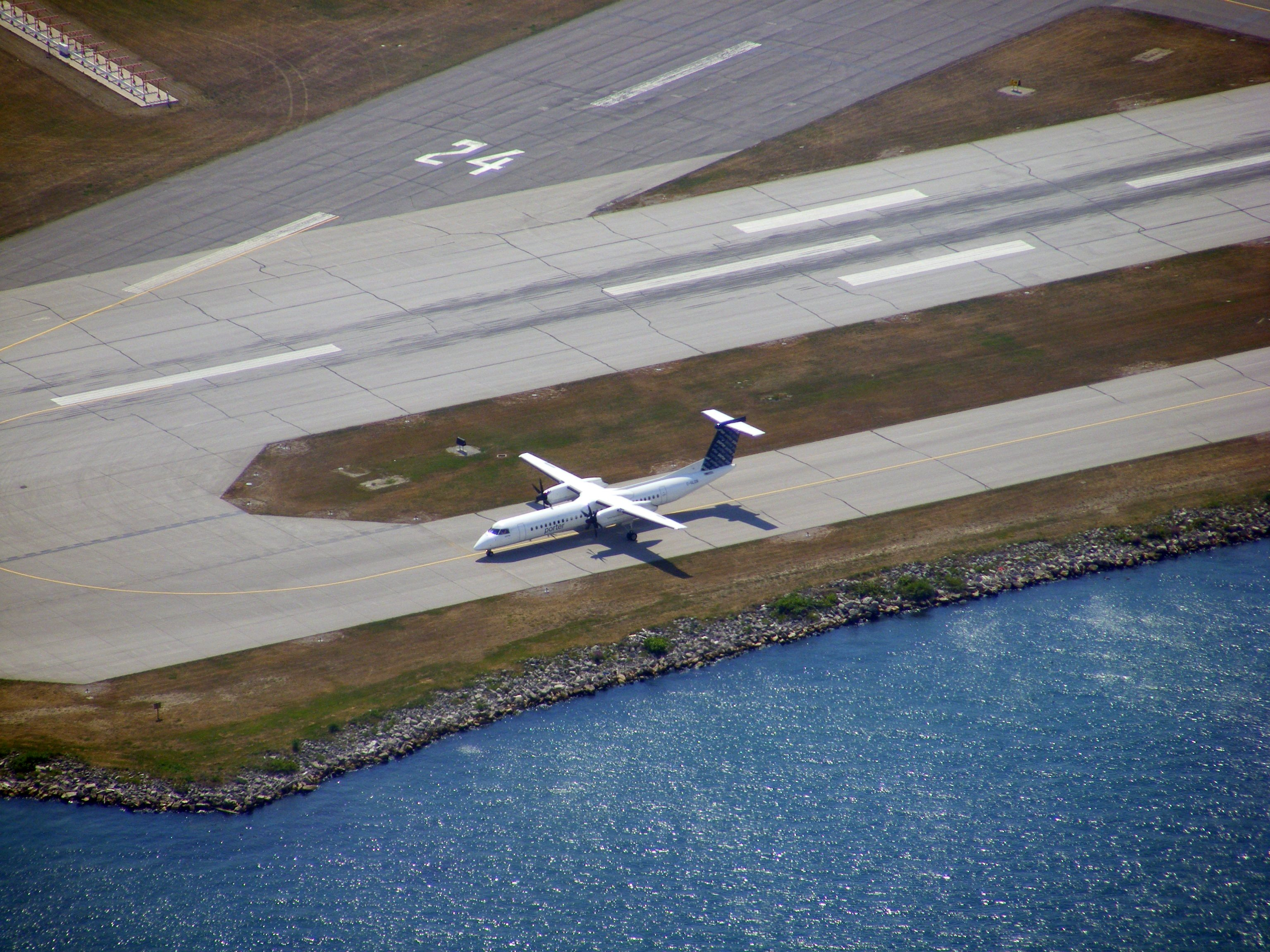 The following is the author's description of the photograph quoted directly from the photograph's Flickr page."aéroport de centre-ville vu de la tour CNdowntown airport seen from the CN Tower "